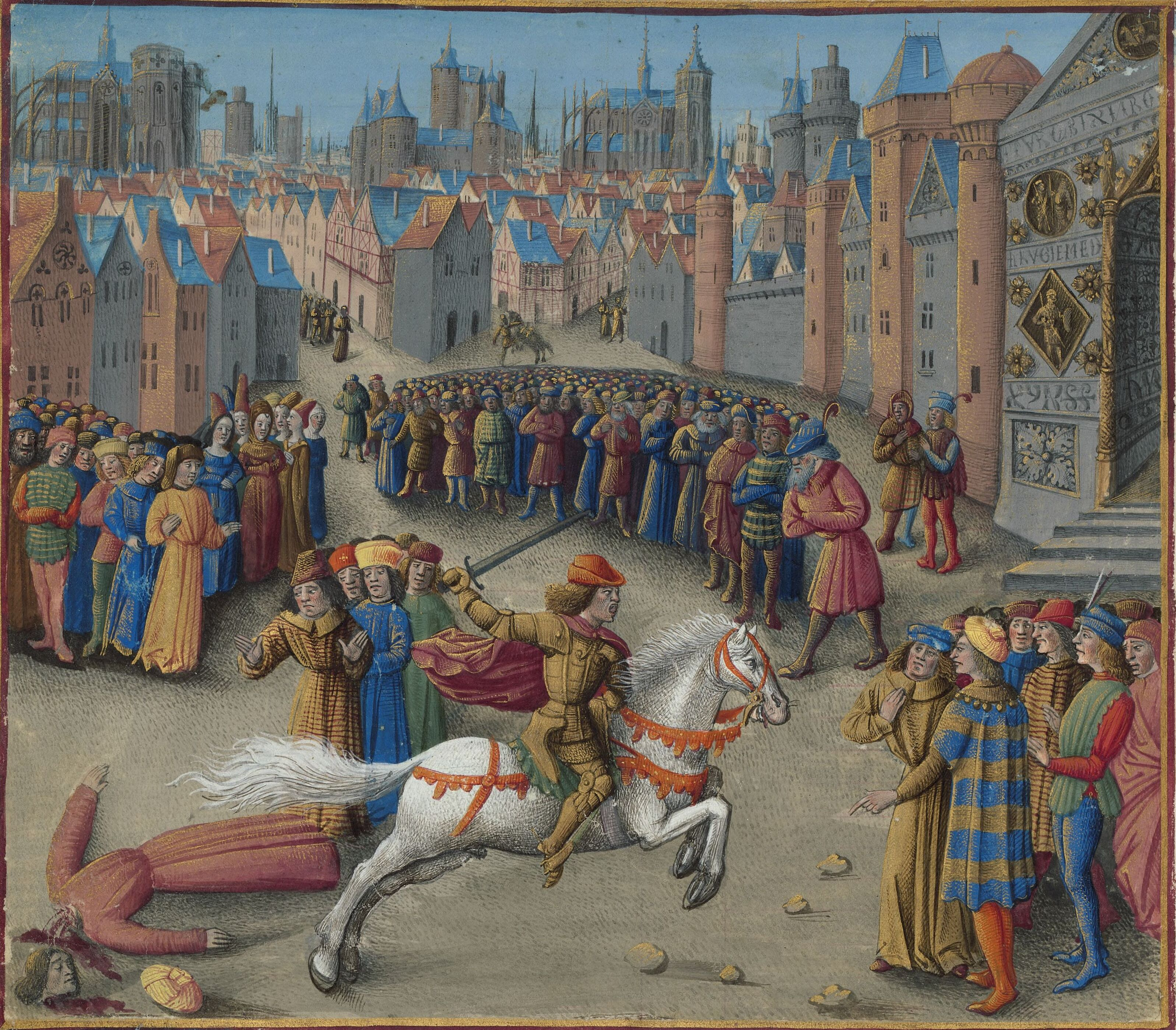 Miniature: killing of Stephen Hagiochristophorites, Sébastien Mamerot, Les passages d'outremer